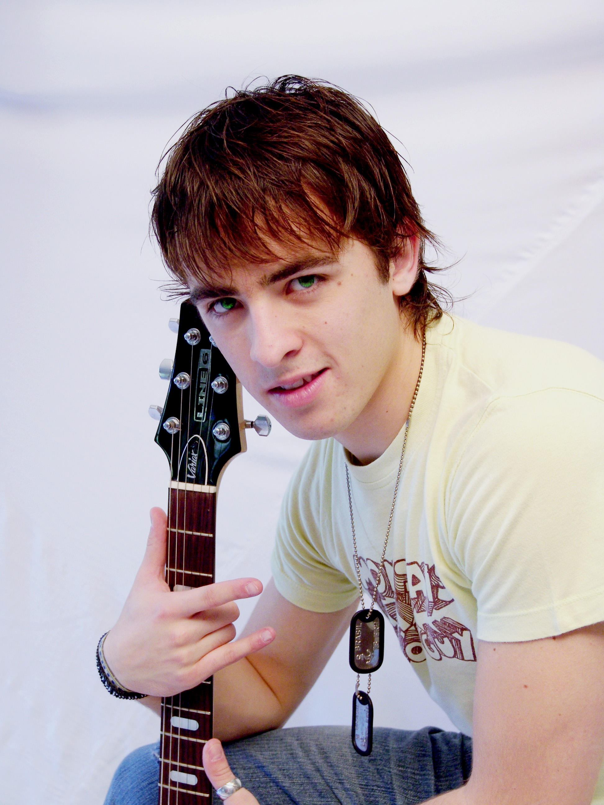 Martin Ricca in Hotel Fazenda Ribeirao, and its TV crew doing takings for its next video clip.